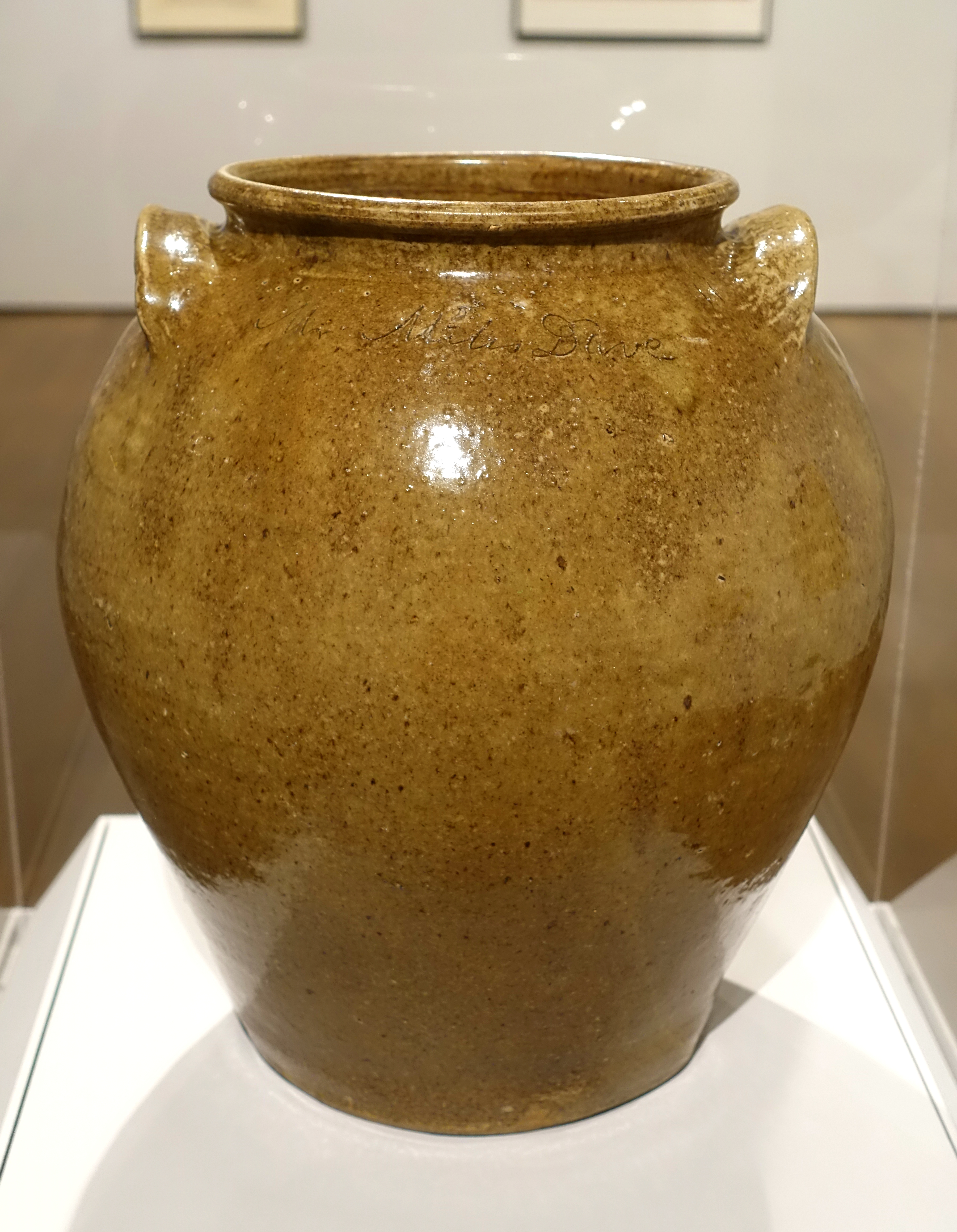 Exhibit in the Fogg Museum, Harvard University - Cambridge, Massachusetts, USA.